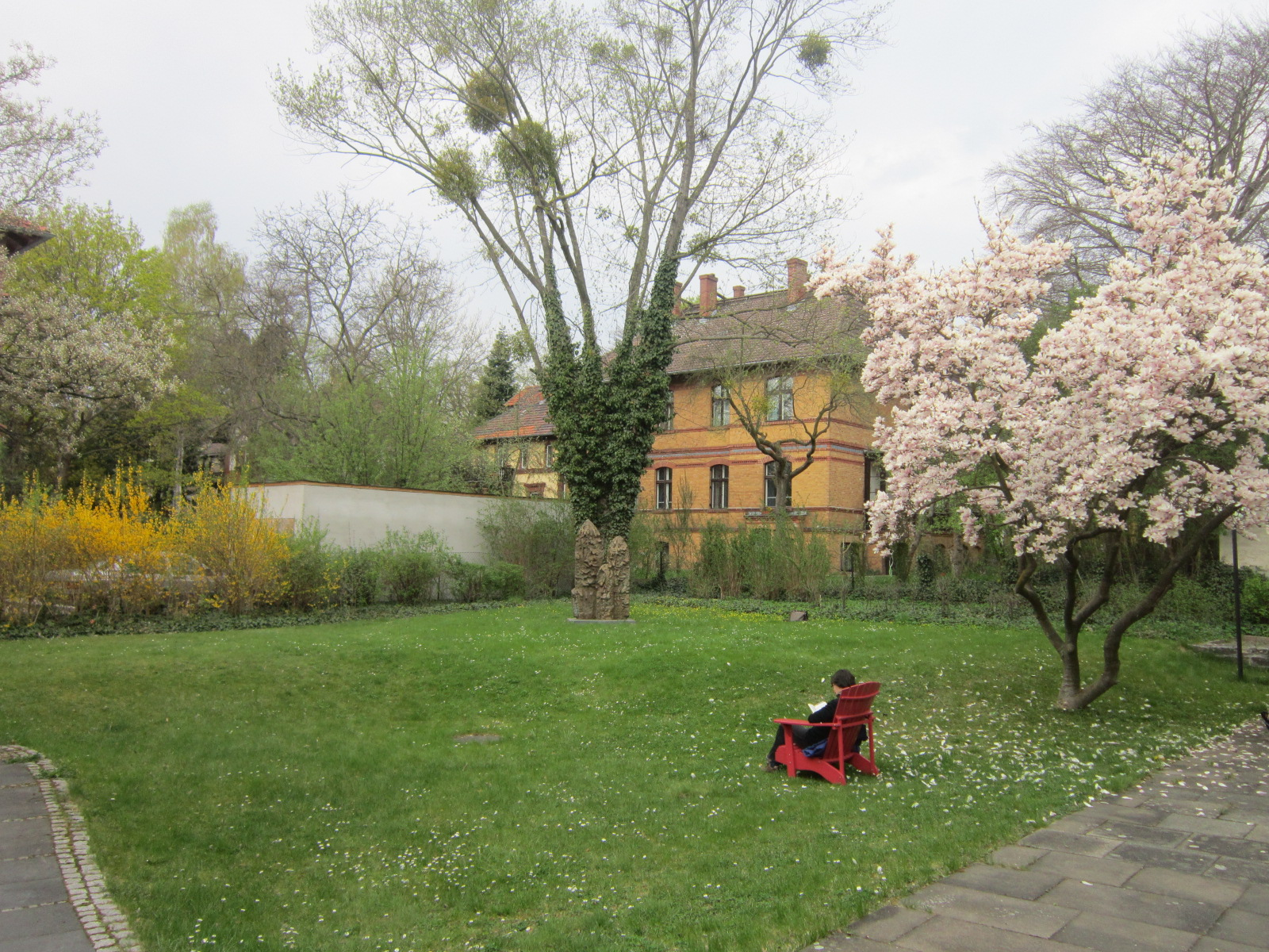 Reading garden of Gottfried Benn library where Khojaly Massacre Memorial stayed. Berlin